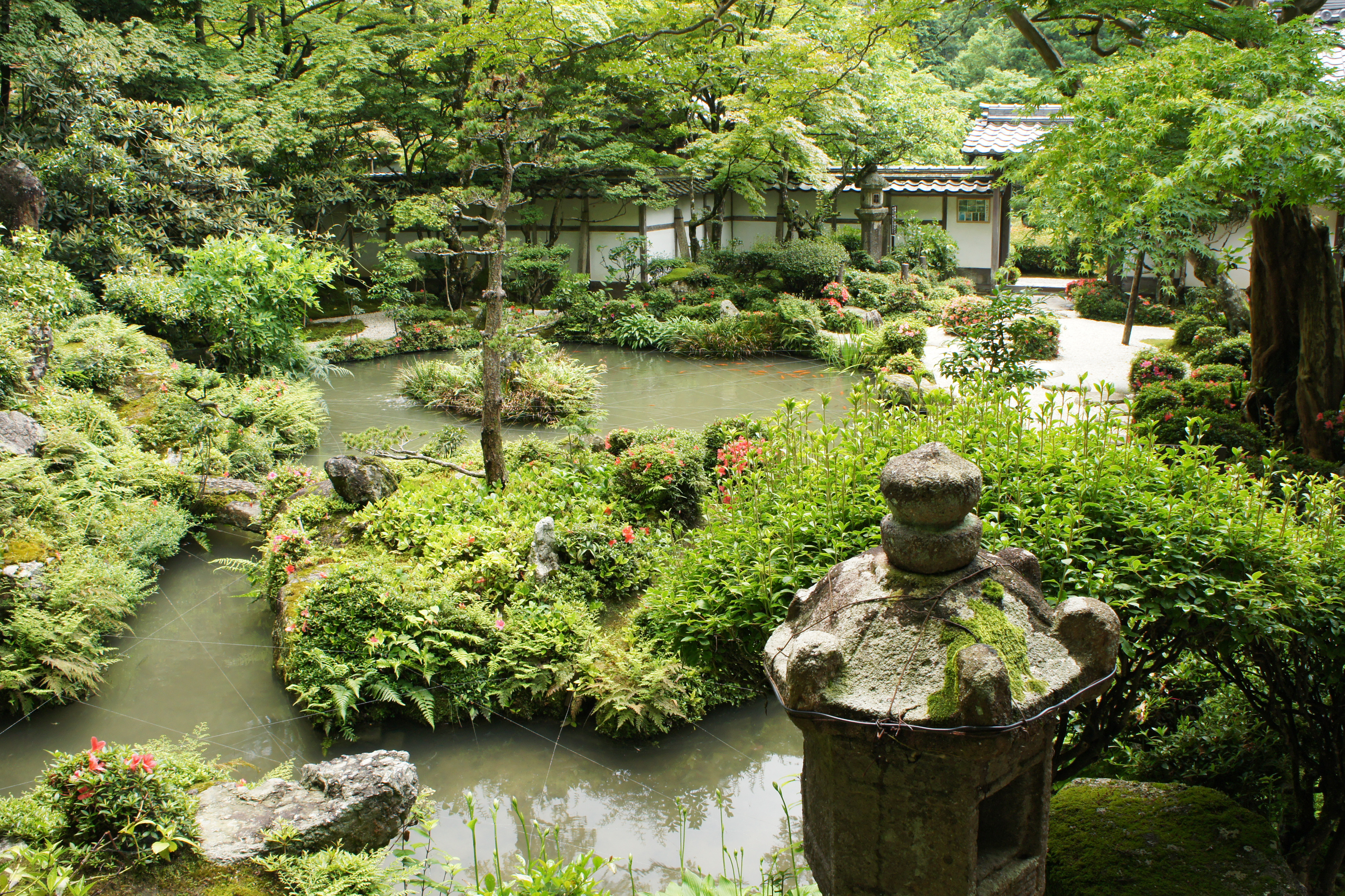 Saimyoji in Kora, Shiga prefecture, Japan